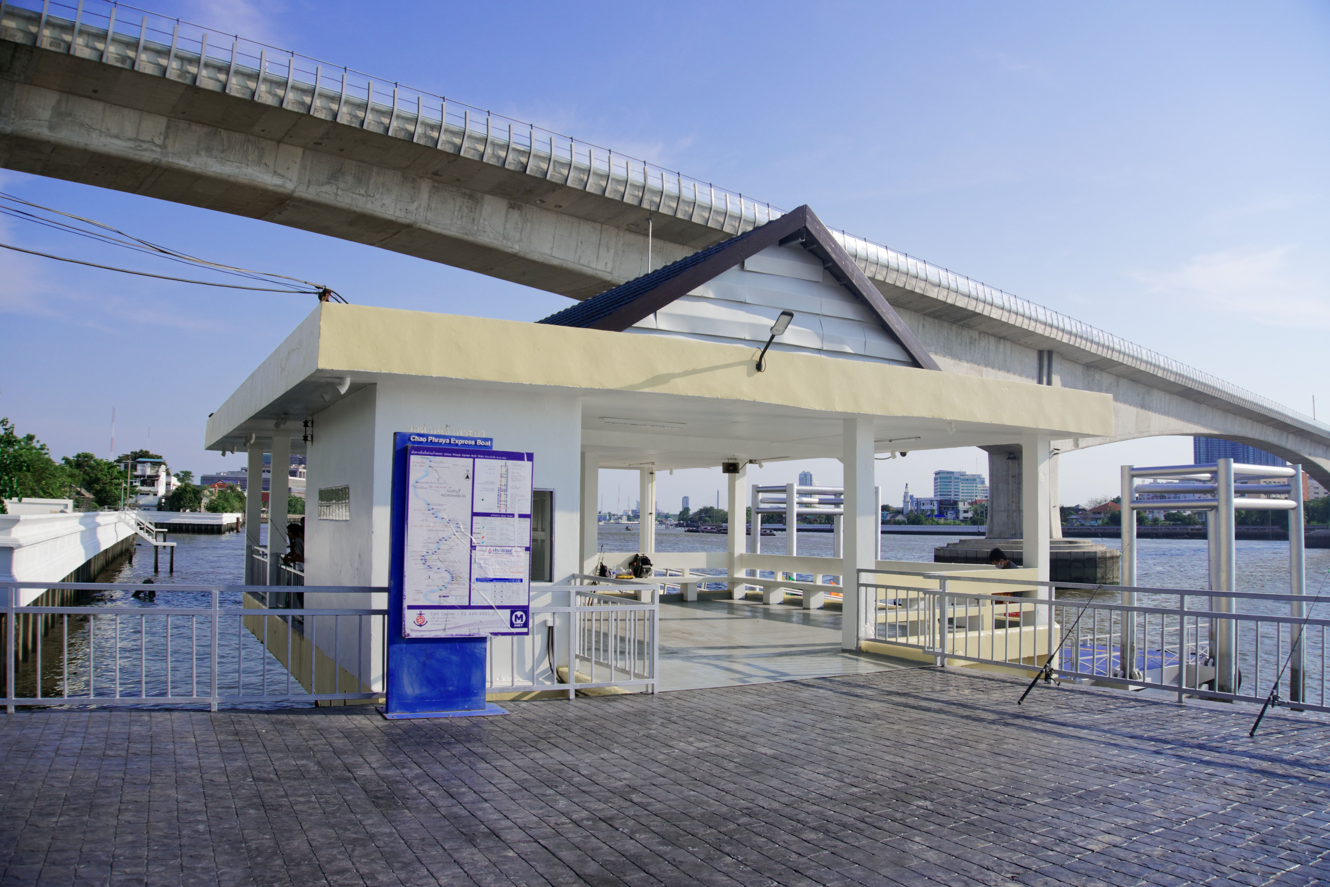 MRT Bang Pho - Bang Pho pier renovated - Shelter